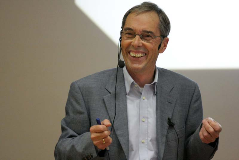 Mr. Prof. Dr. Friedemann Schulz von Thun in a lecture. Creation date of the photo: November 2014.